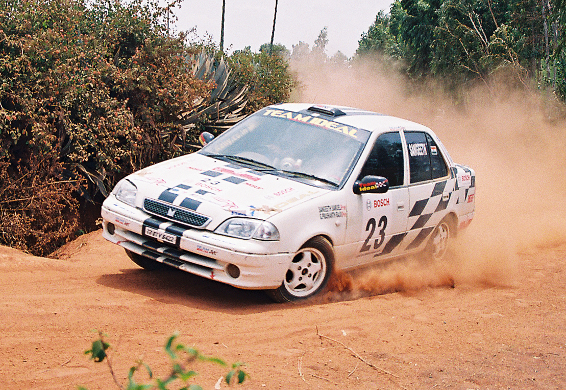 2002-2004 Maruti Esteem being raced in Bangalore, India